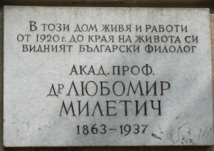 The plaque on the home of the Bulgarian linguist Lyubomir Miletich on "Shipka" Street, Sofia, Bulgaria